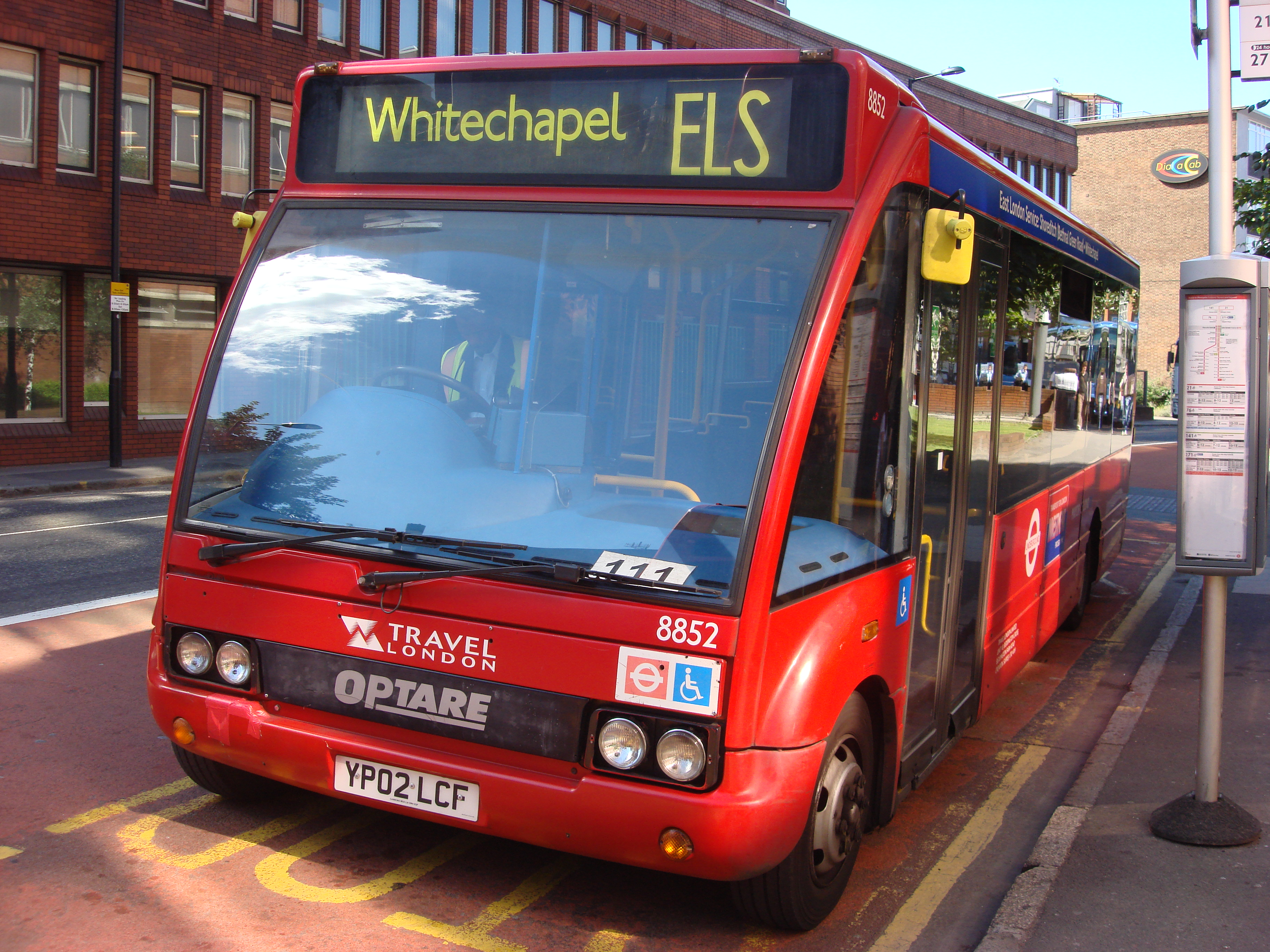 Travel London bus 8852 (reg. YP02 LCF), a 2002 Optare Solo M850 midibus. It's branded for and operating London Buses route ELS, which was one of the long term rail replacement serices provided at one time or another during the conversion of the East London Line from an Underground to an Overground line (the routes being ELW Whitechapel - Shadwell, ELS Whitechapel - Shoreditch, ELC New Cross Gate - Canada Water & ELP Canada Water - Rotherhithe).